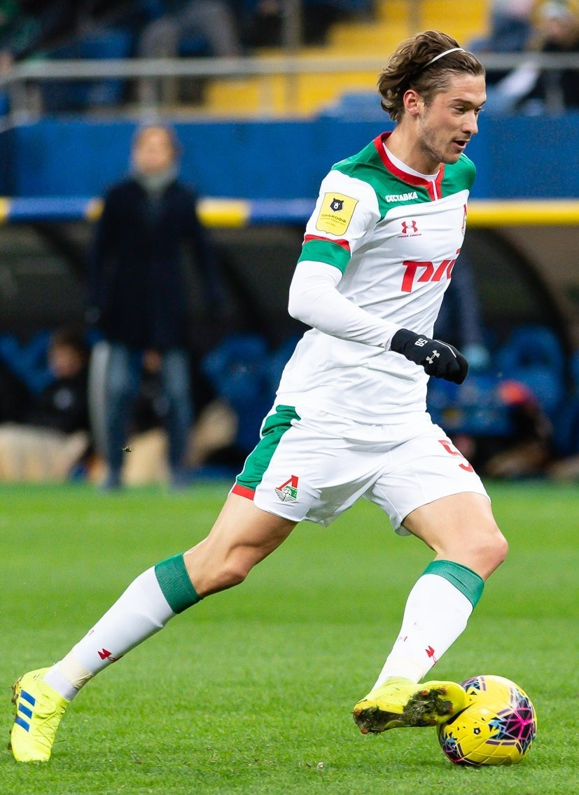 Aleksei Miranchuk with FC Lokomotiv Moscow in a game against FC Rostov.